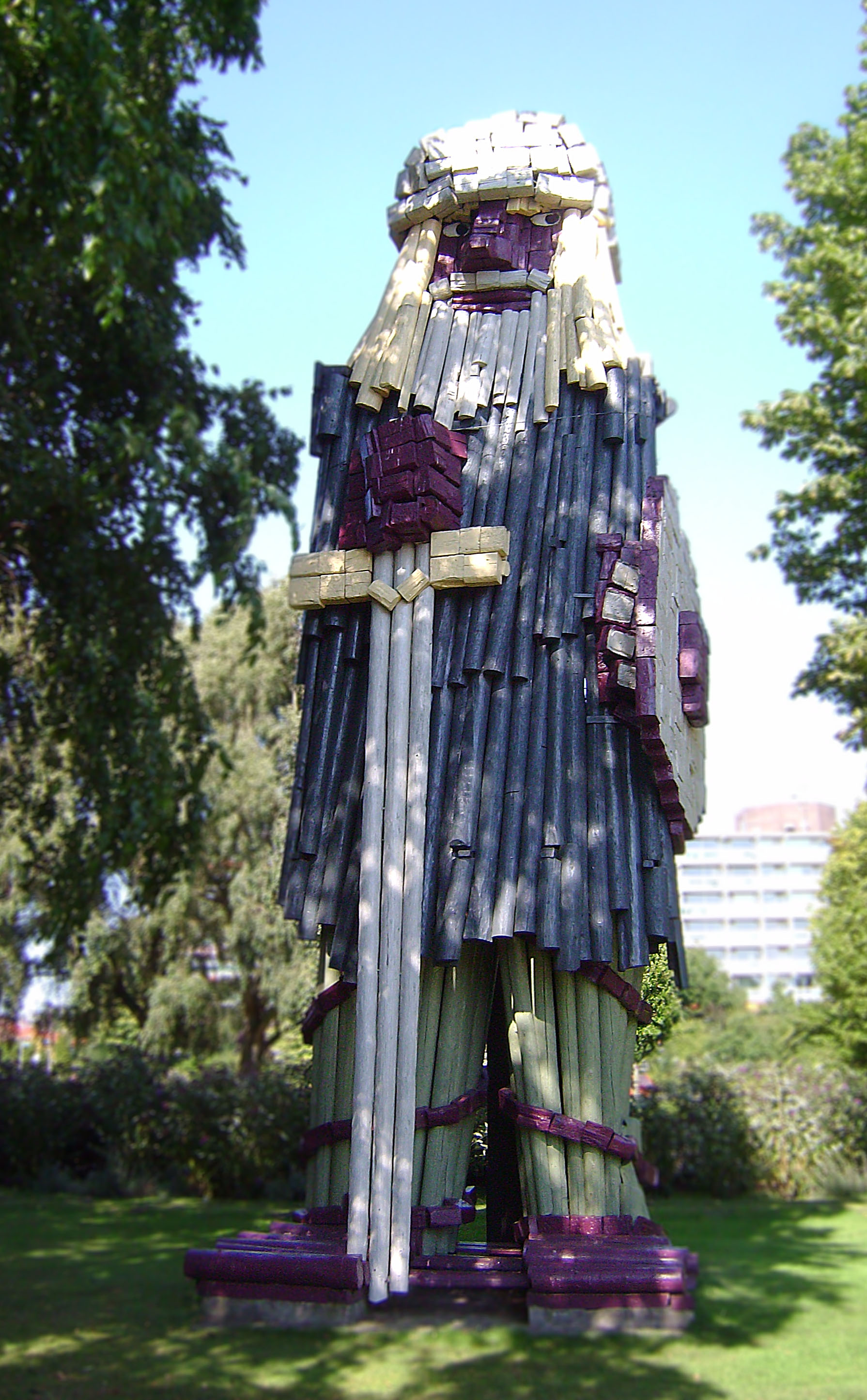 Viking, by Calle Örnemark, in Amersfoort (The Netherlands), district Liendert.